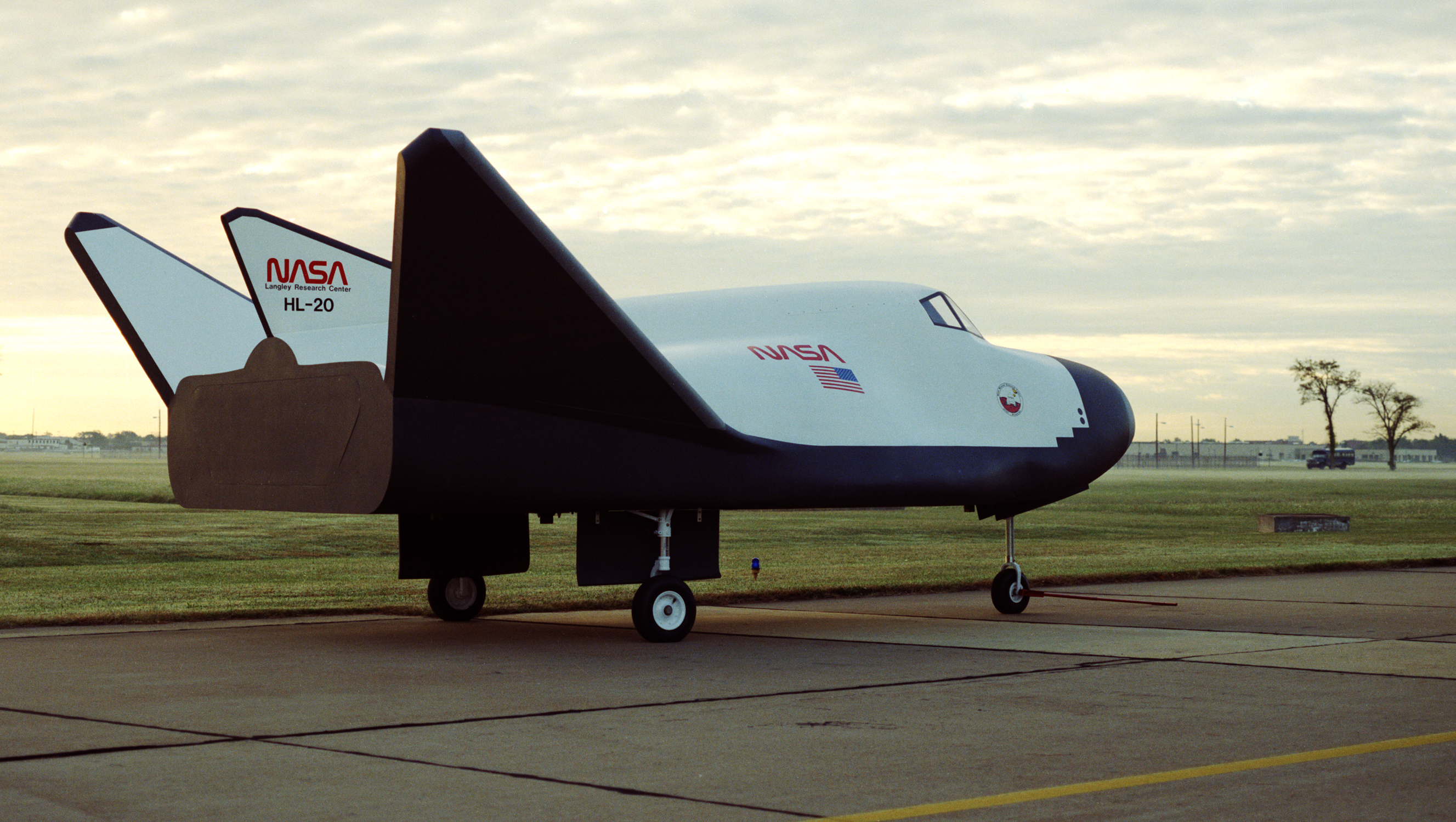 The HL-20 was built at Langley in October 1990 and is a full-scale non-flying mockup. This mockup was used for engineering studies of maintainability of the vehicle, as testing crew positions, pilot visibility and other human factors considerations. The HL-20 was a direct derivative of the HL-10 vehicle tested in the 1960s and bears a very close resemblance to engineering drawings produced at that time. Although evaluated as a possible "space taxi," the HL-20, sometimes called the "Personnel Launch System," was never built.